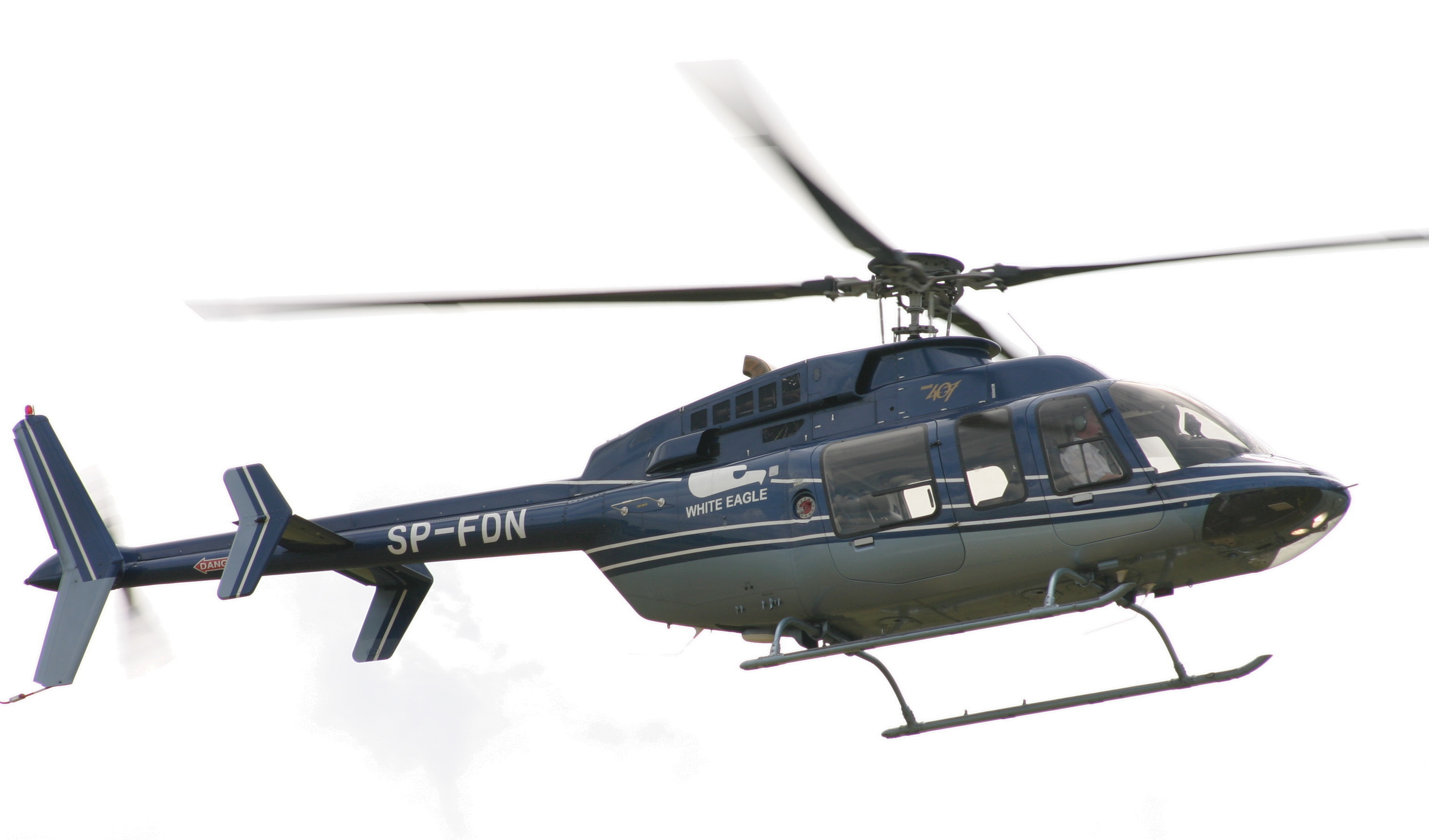 Zbigniew Niemczycki's Bell 407 (SP-FDN) during Góraszka Air Picnic 2007